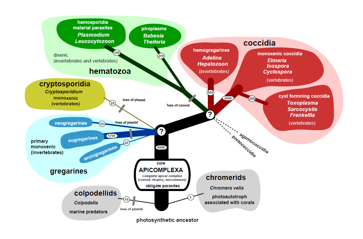 Hypothetical tree of Apicomplexa. Three principal parasitic groups are coloured and their life cycle indicated, as well as Cryptosporidium that likely emerged from within gregarines. Numbers on branches and thickness indicates diversity (i.e. named species).